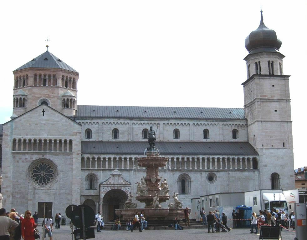 Duomo (Cathedral of Saint Vigilius) and Neptune's Fountain, Trento (Italy)